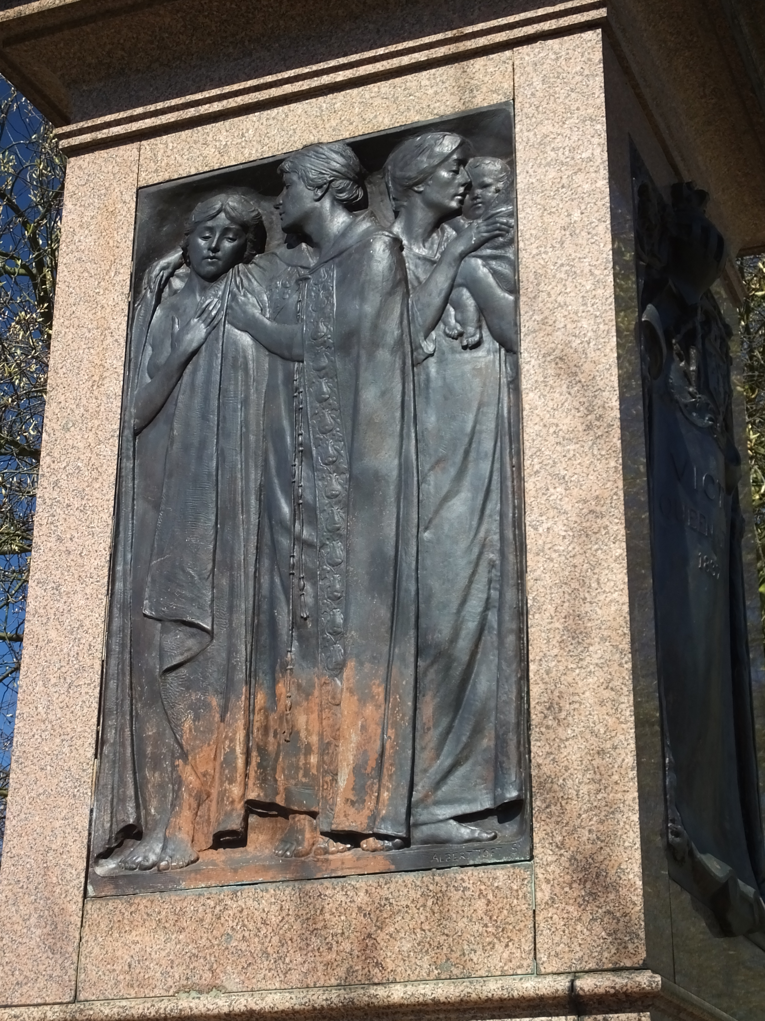 The City War Memorial, Nottingham is the main War Memorial for the City of Nottingham. It is located in the Meadows It was designed by T. Wallis Gordon, Nottingham City Engineer and Surveyor. The foundation stone was laid 1 August 1923. To the east is the River Trent, and to the west the Memorial Gardens with fountains and a statue of Queen Victoria.